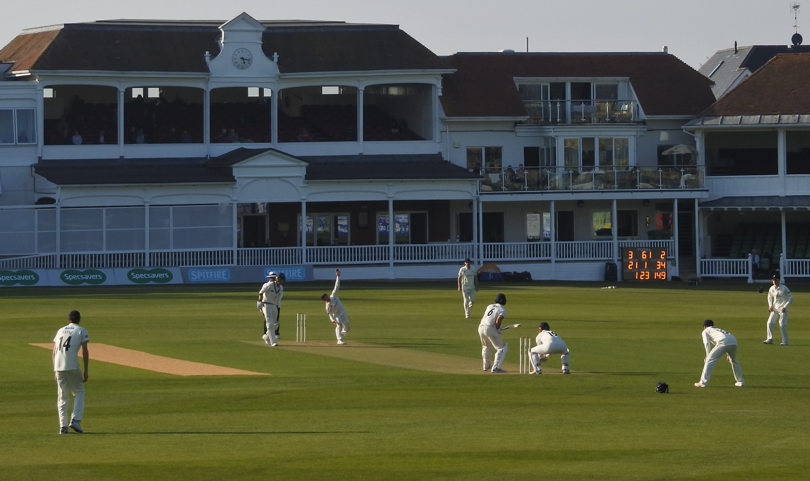 Kent v Gloucestershire, St Lawrence Ground, Canterbury. April 8, 2017, Kent's second innings